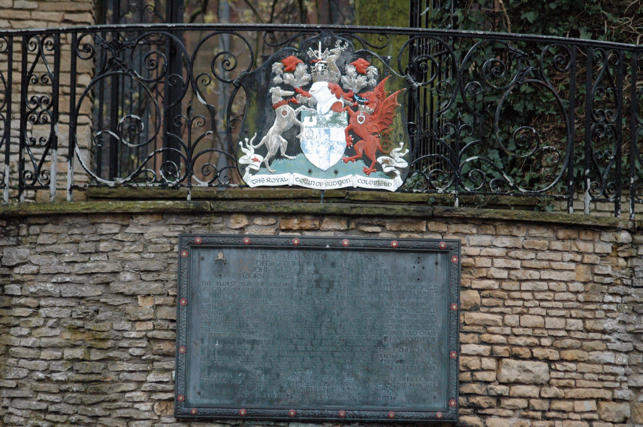 This is a memorial to John Vesey, Bishop of Exeter who dedicated his life to improving Sutton Coldfield, establishing a grammar school and Sutton Park through his friendship with King Henry VIII. Vesey Gardens in Sutton Coldfield, Birmingham, England is named in his honour.